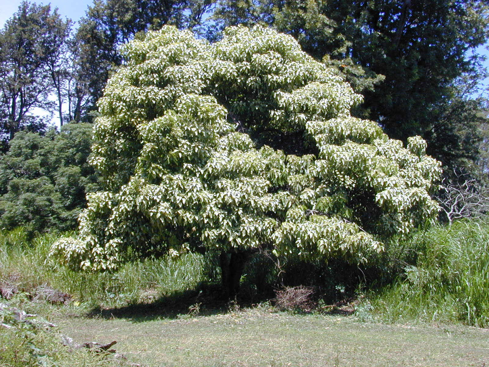 Aleurites moluccana (habit). Location: Maui, Hui Noeau Makawao